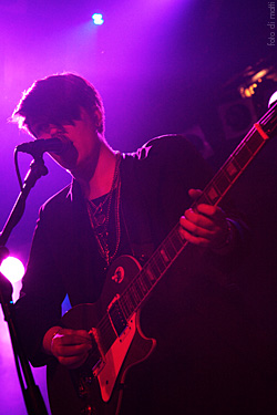 Portrait of Romy Madley Croft, photographed by Matti Hillig. The photo was taken in a concert in Barcelona, Spain on November 9, 2009. Romy Madley Croft is founding member and singer of the music band The xx. High-resolution versions of this and more photos are available. Please contact me